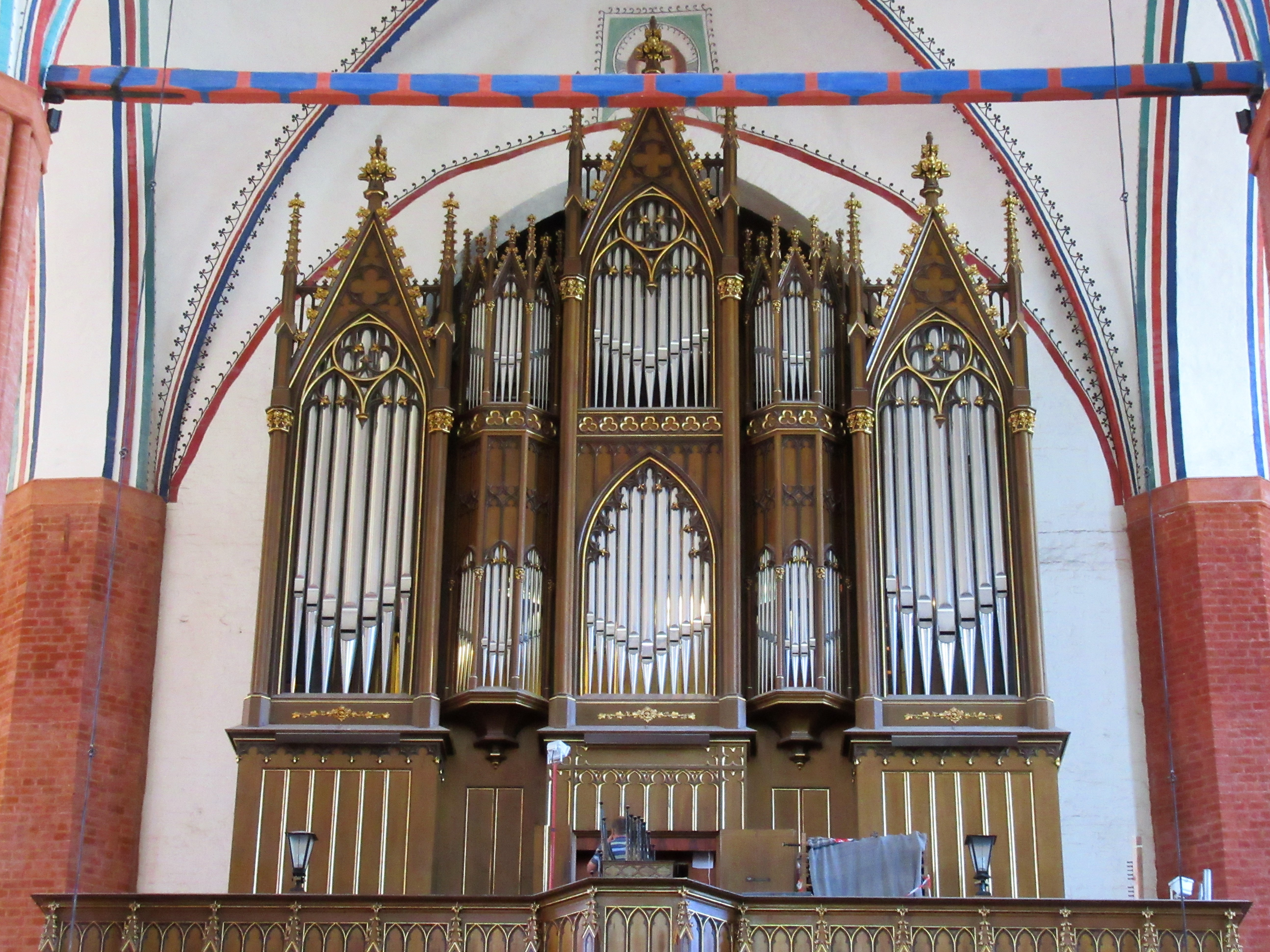 St. Marien, Greifswald